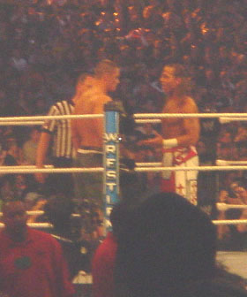 An image of WWE Champion John Cena and Shawn Michaels at WrestleMania 23